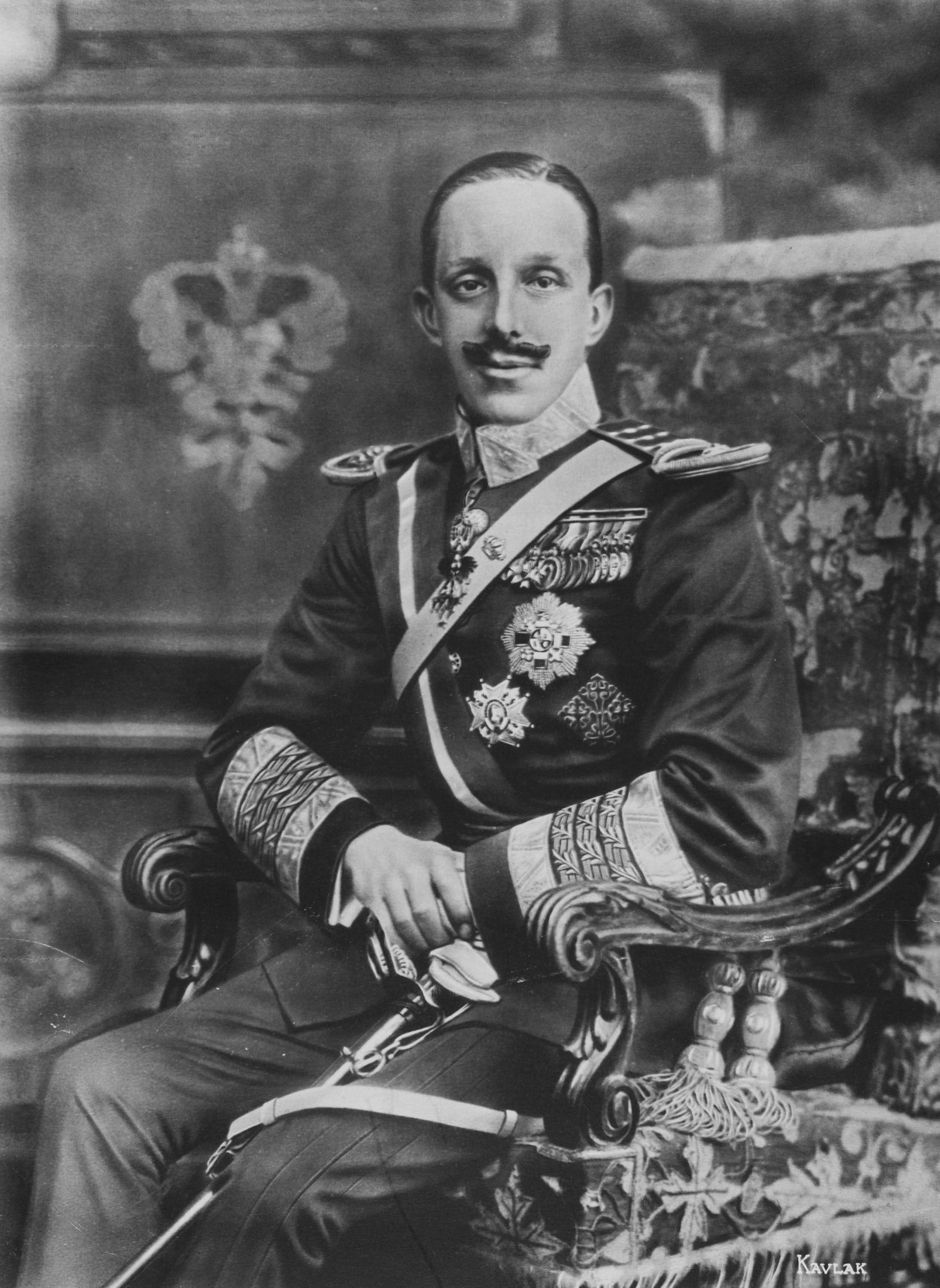 Portrait of King Alfonso XIII of Spain.